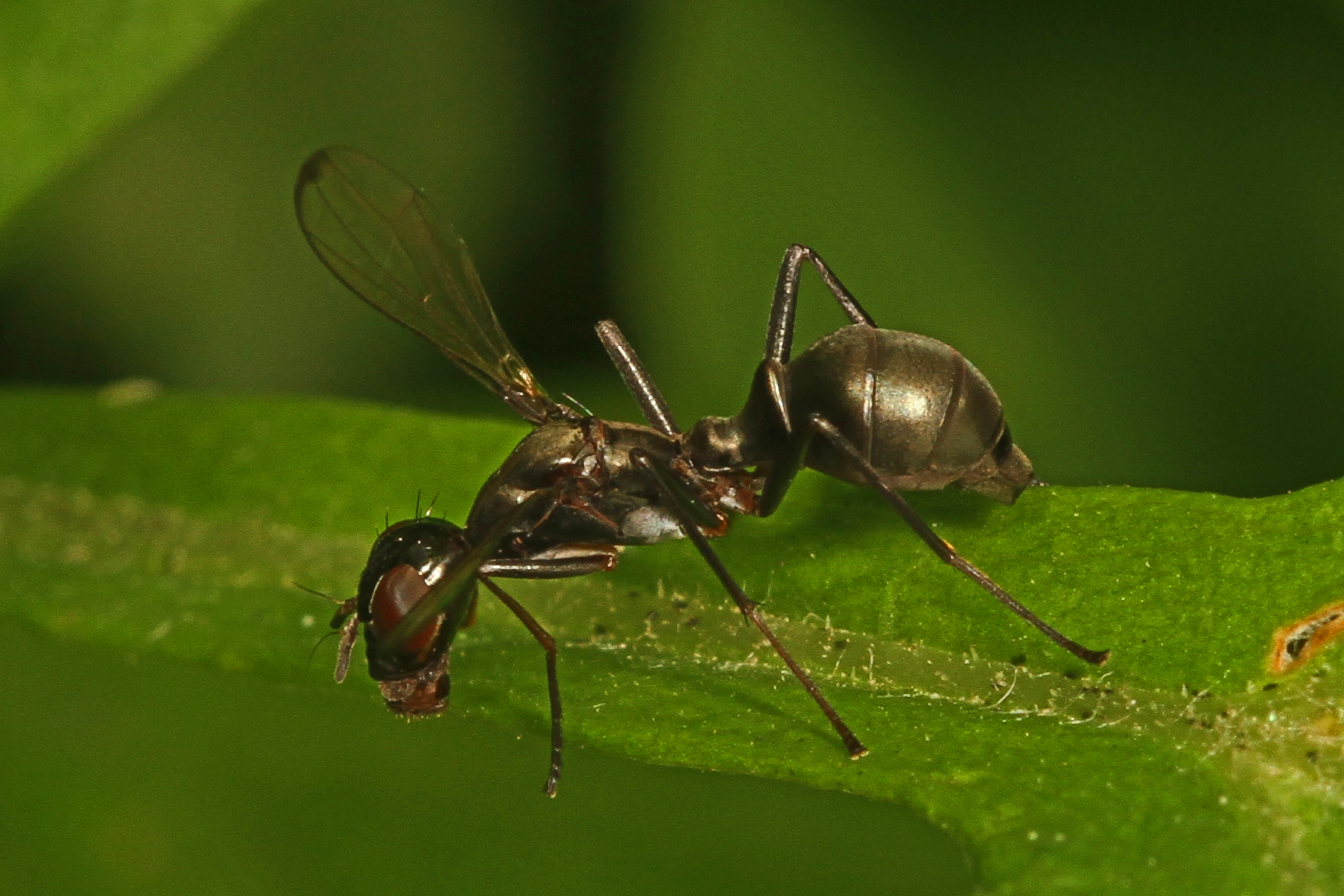 Picture-winged Fly - Myrmecothea myrmecoides, Meadowwood Farm SRMA, Mason Neck, Virginia. As you can see, this is an ant mimic. I'm not sure what evolutionary advantage this is for the fly though. HFDF!